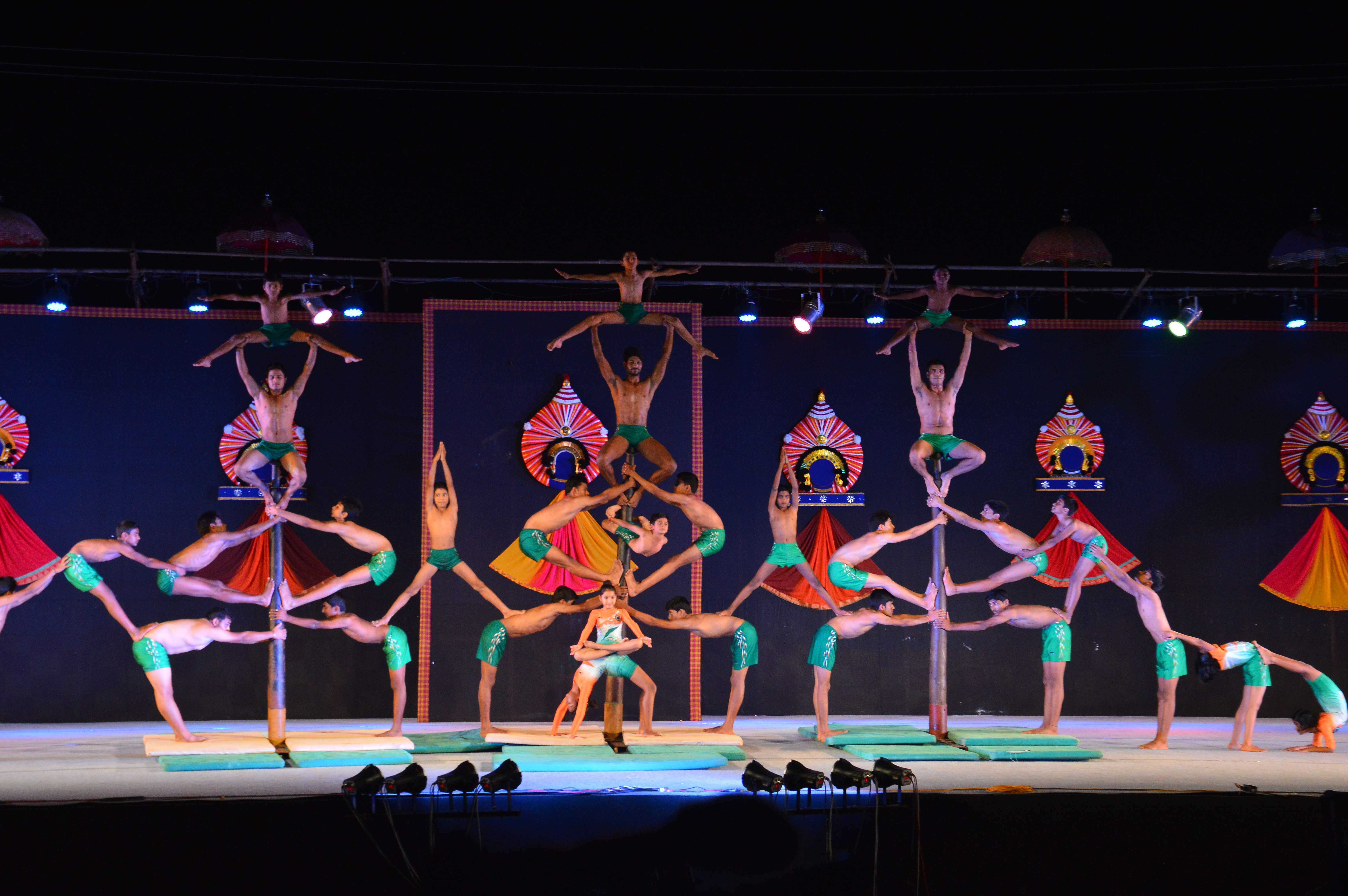 Malakhambha pradarshana Nudisir 2015